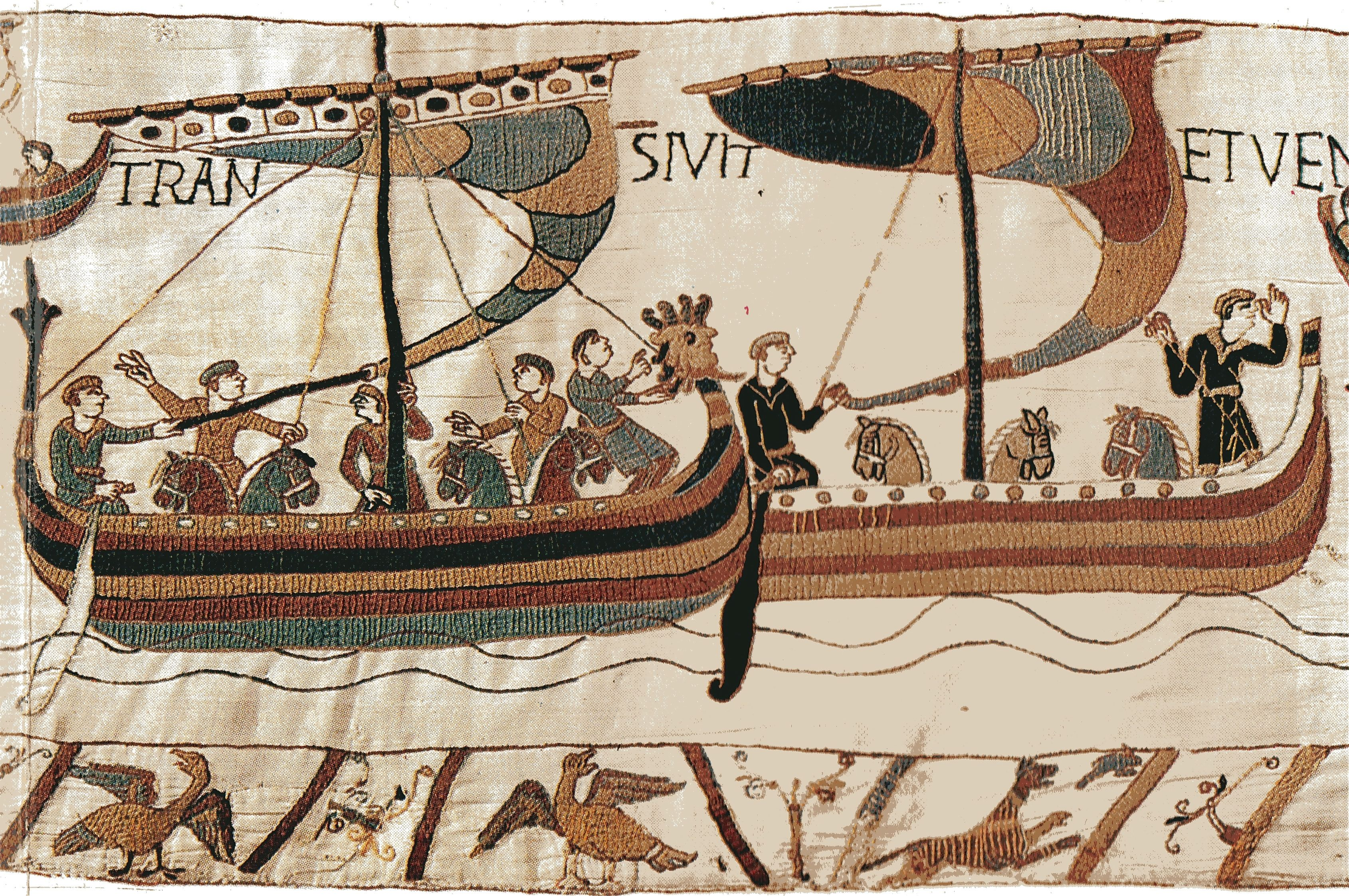 Horses being shipped to England by Normans prior to their invasion